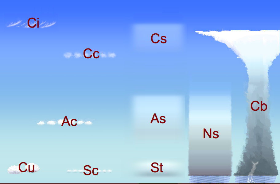 STypes of clouds